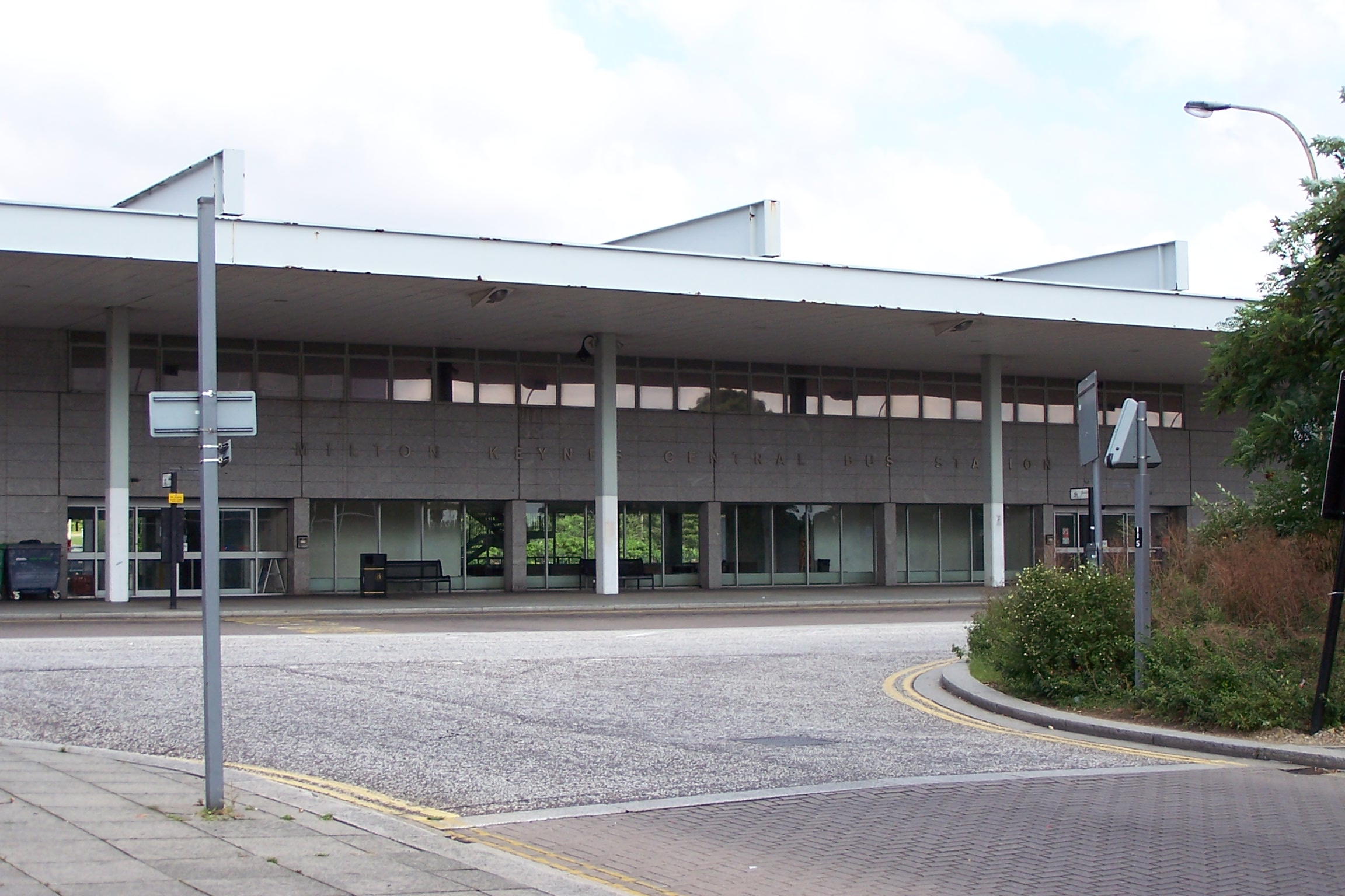 Part of the former central bus station, Elder Gate, Milton Keynes, Buckinghamshire, seen from the west